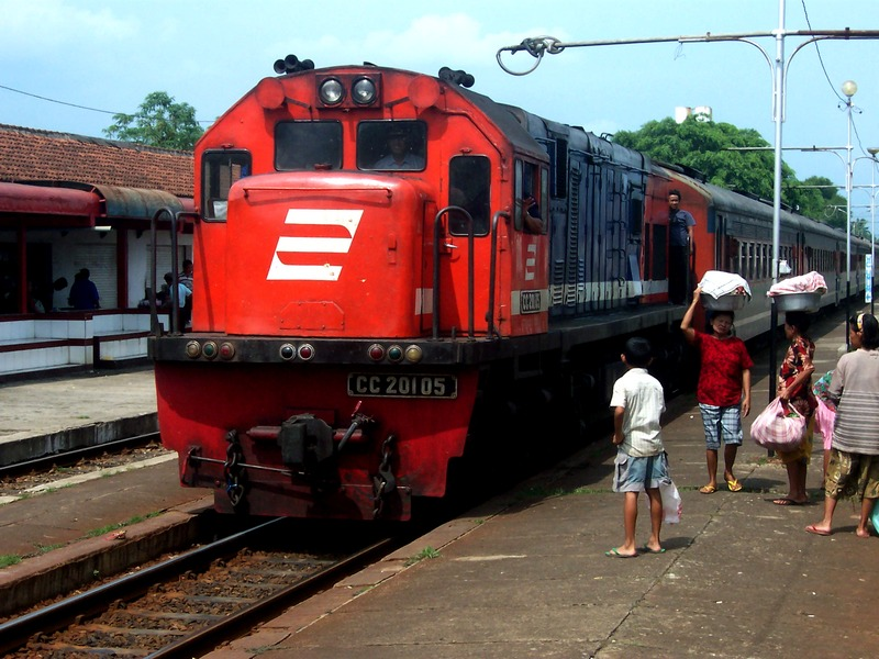 Diesel locomotive CC 201 05 from Indonesia